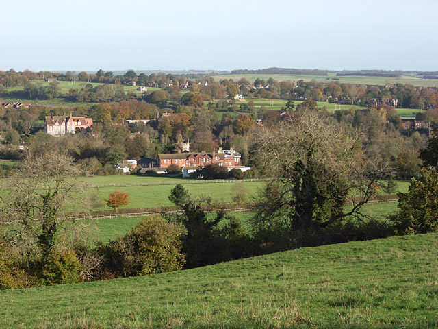 Above Preshute Looking down on Preshute House and the church.